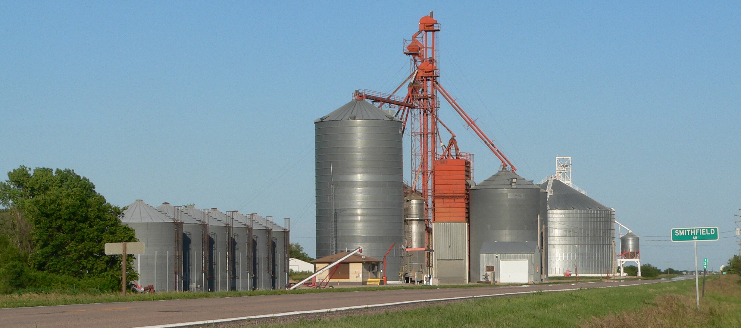 Grain bins at Smithfield, Nebraska; seen from the northwest on Nebraska Highway 23.